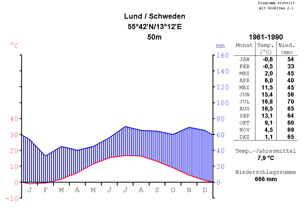 climate chart of Lund, Sweden, for the period of time from 1961 to 1990, in the format by Walter and Lieth, metric, °Celsius and millimeters, chart made with Geoklima 2.1, label in German